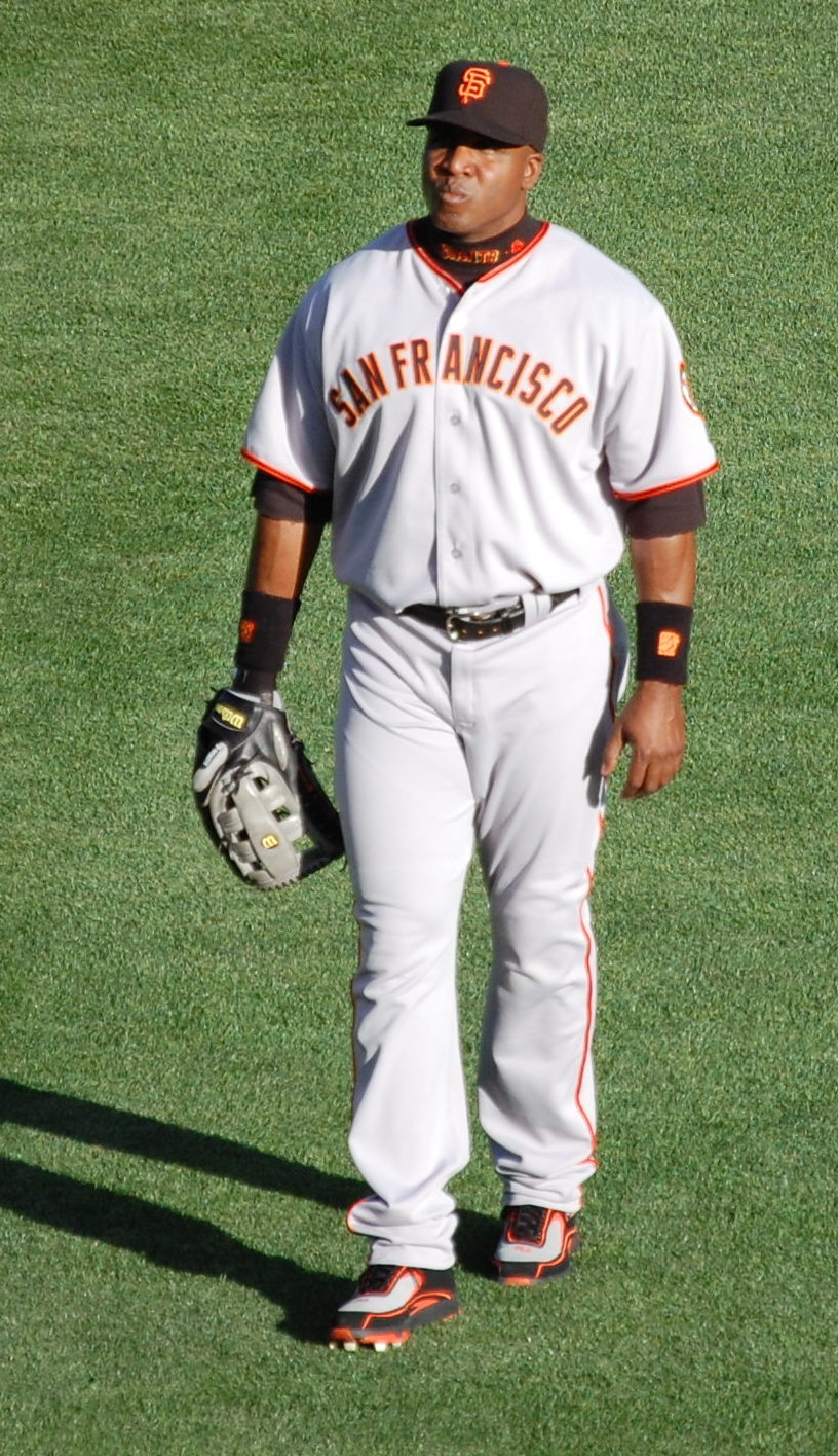 my own shot; release under gfdl 19:55, 13 May 2007 . . Onetwo1 . . 3008×2000 (1.5 MB)